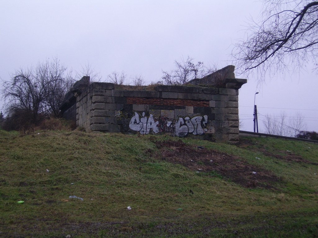 Remains of the Szeged Railway Brigde (1858-1944), Szeged, Hungary